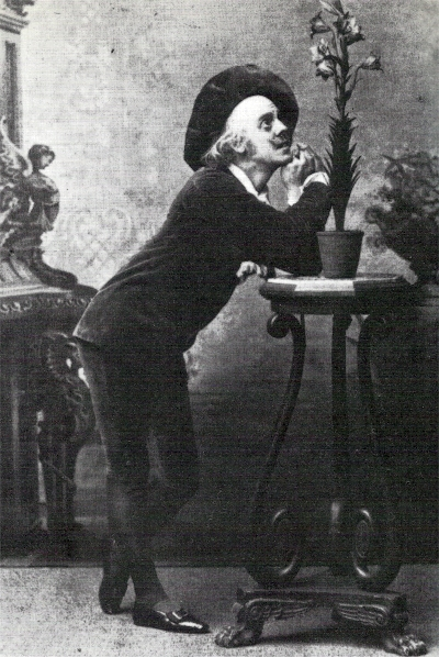 1881 publicity photograph of Frank Thornton as Major Murgatroyd in Patience.